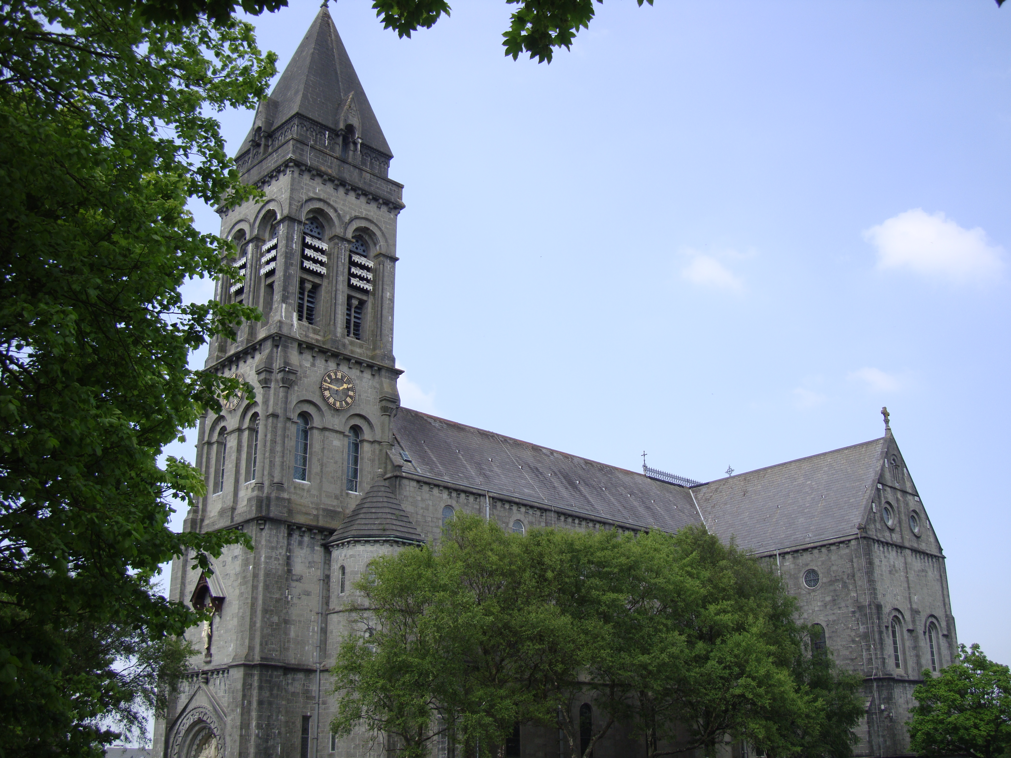 Photograph of Sligo Catholic Cathedral, Sligo, Ireland